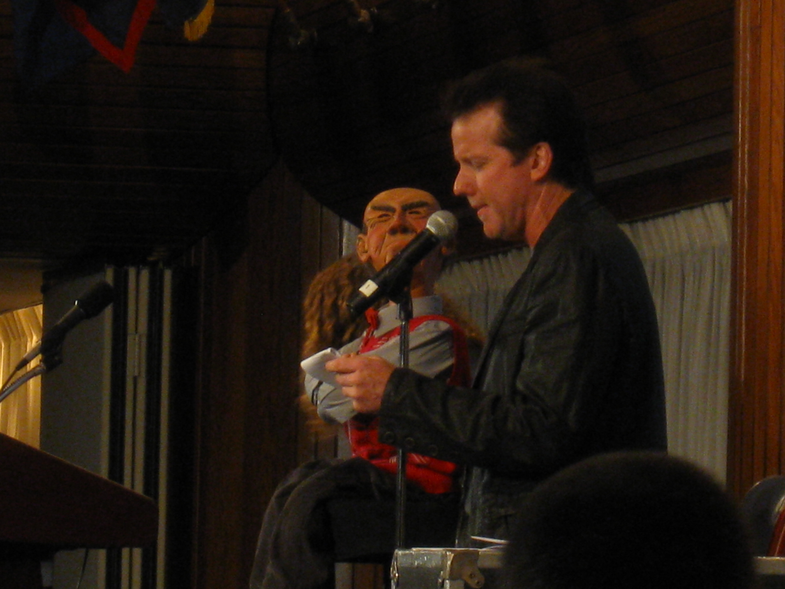 Jeff Dunham and Walter.